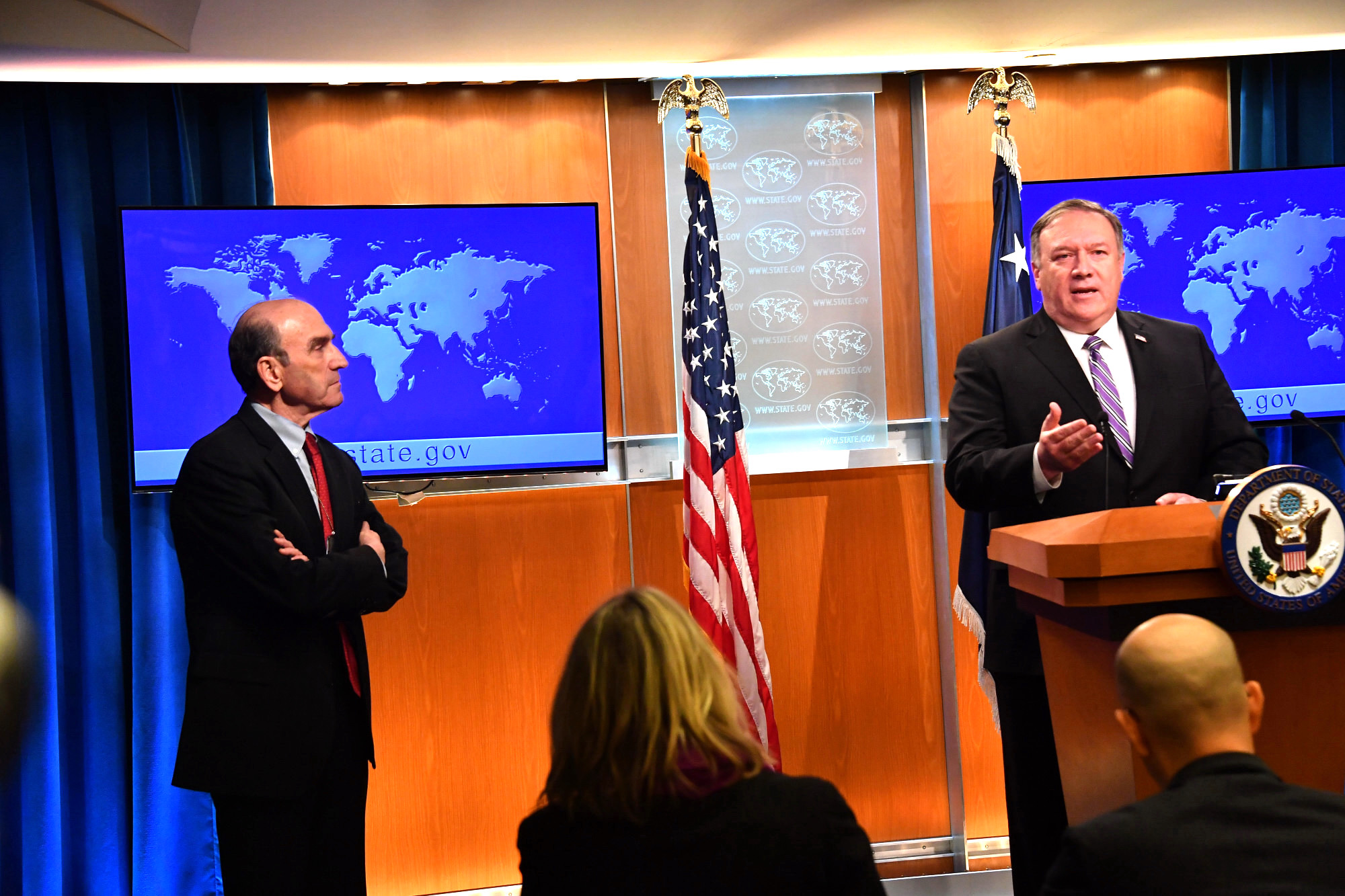 Secretary of State Michael R. Pompeo, with Elliott Abrams, delivers remarks to the media on Venezuela, at the Department of State, January 25, 2019. [State Department Photo / Public Domain]